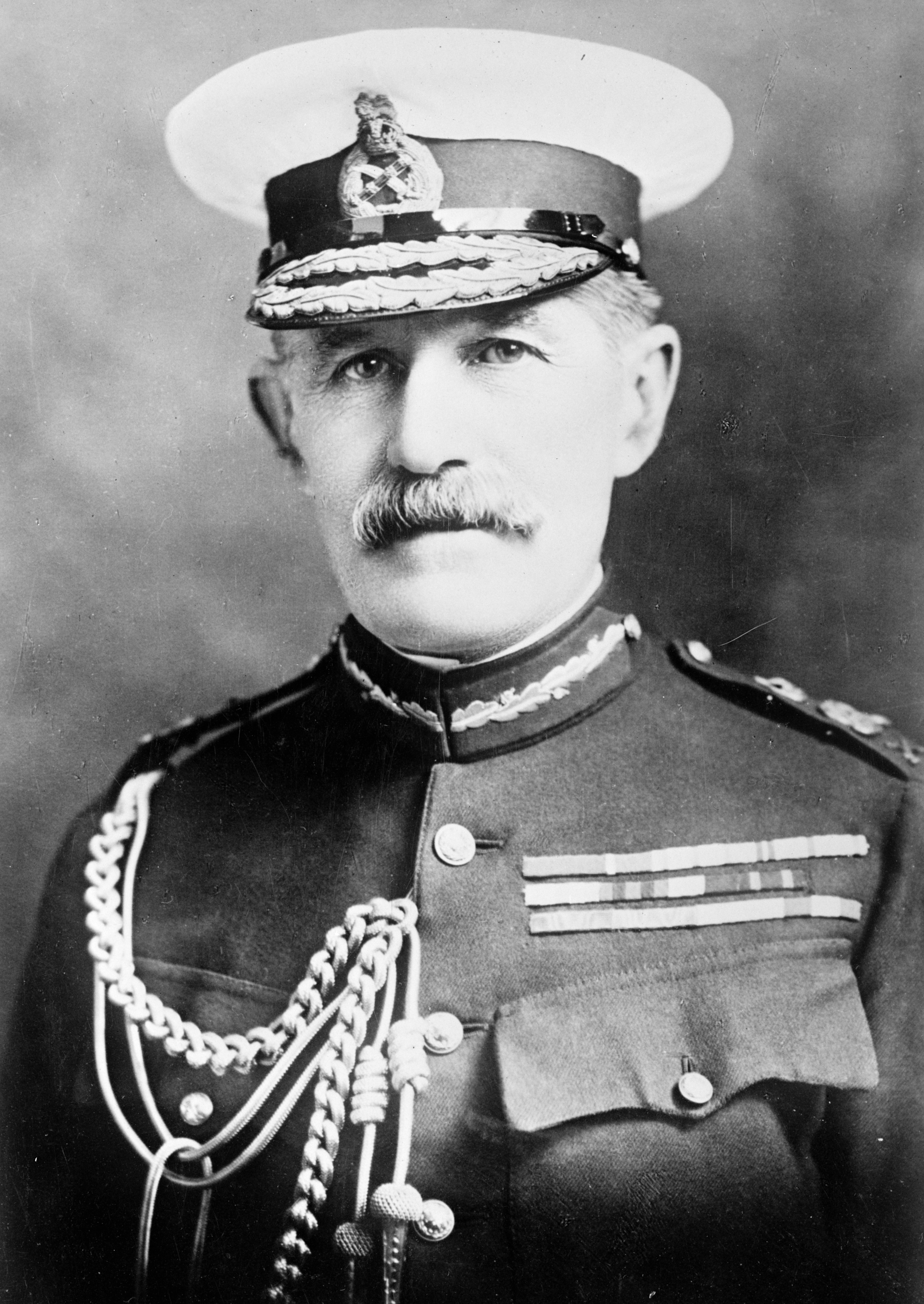 British genral Horace Smith-Dorrien (1858-1930)